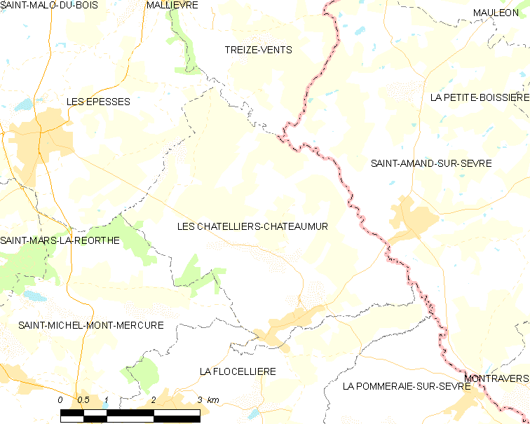 Map of French municipality Les Châtelliers-Châteaumur